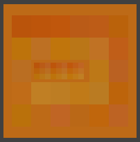 colors in a hueborhood of orange, varying slightly in hue, saturation, and value